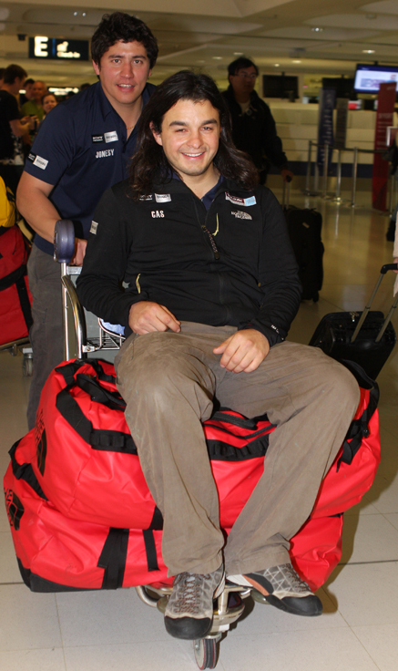 Justin Jones and James Castrission at the Sydney International Airport prior to an Antarctic trip.